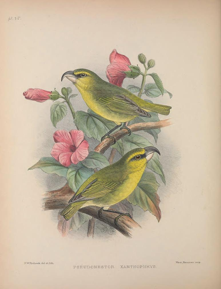 Pseudonestor xanthophrys from The Birds of the Sandwich Islands